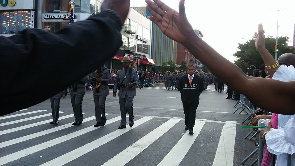 48th ANNUAL AFRICAN AMERICAN DAY PARADE! In Harlem, (NYC). Photo by Linda Fletcher Dabo